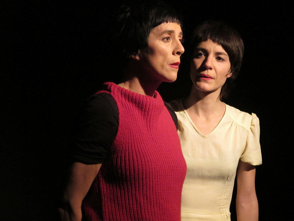 Ainhoa Alberdi and Iraia Elias basque actresses.